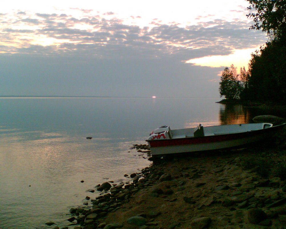 A sunset at the Lake Pyhajarvi, Sakyla, Finland. The photograph was taken with Nokia 6230i mobile phone.